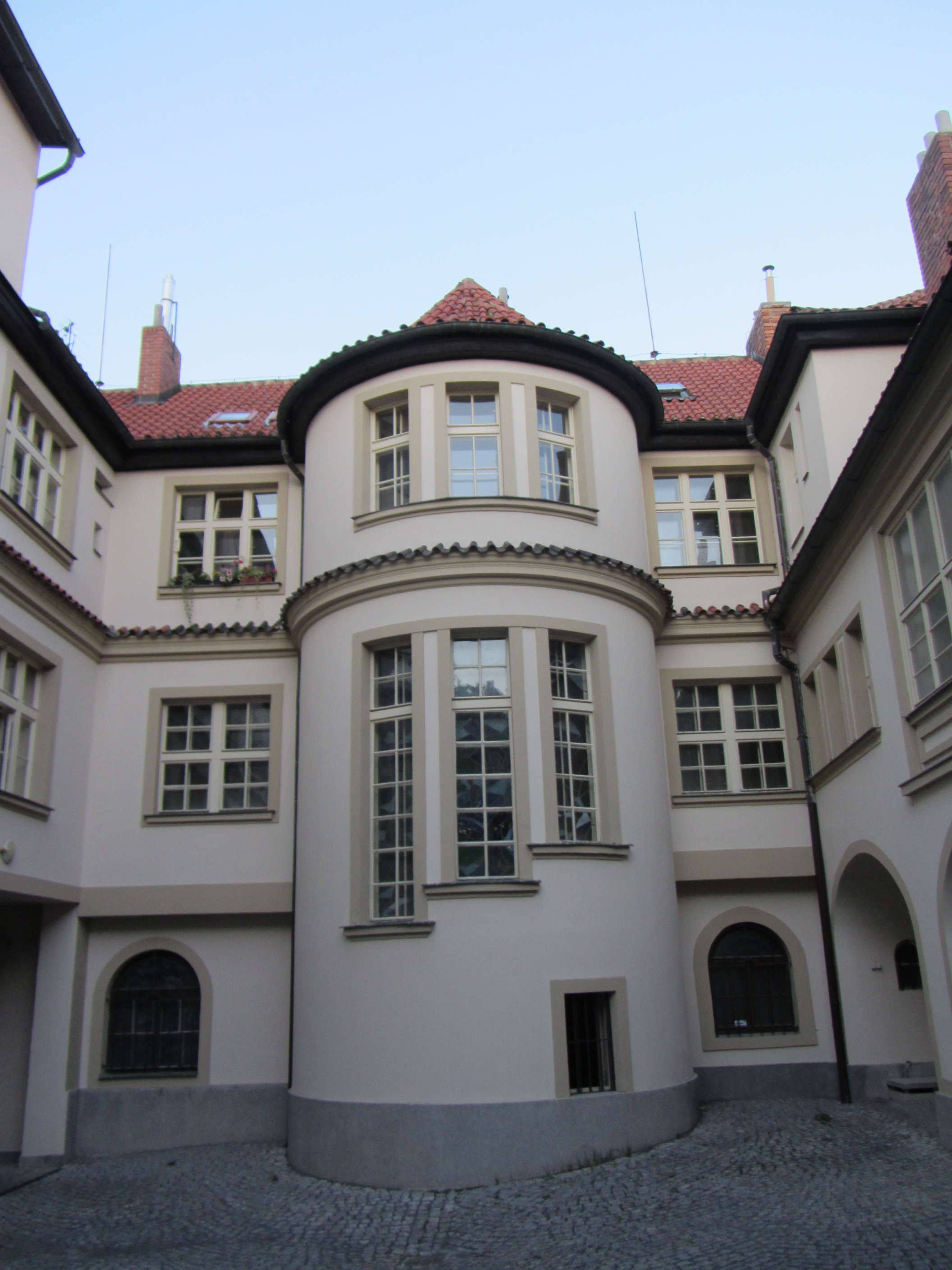 Former homestead Hřebenka, Prague